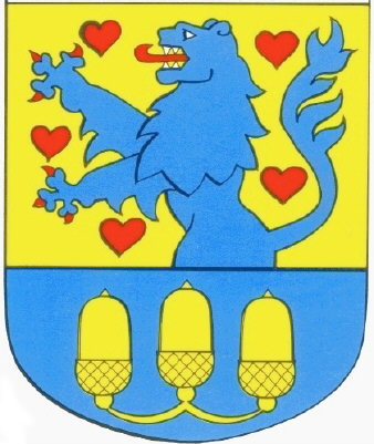 official Coat of Arms of the municipality Vordorf (district of Gifhorn, lower saxony, Germany)